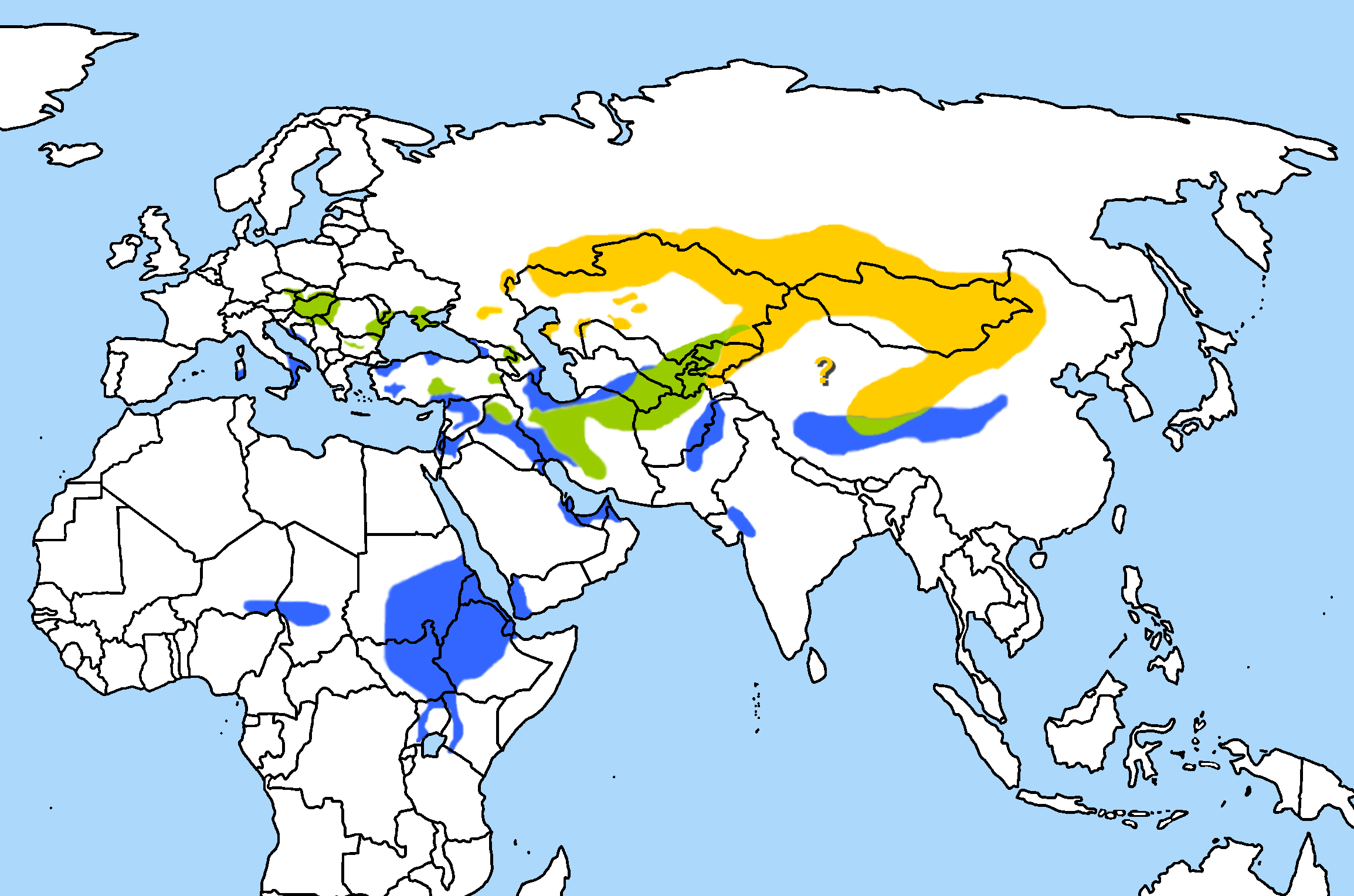 Falco cherrug distribution map